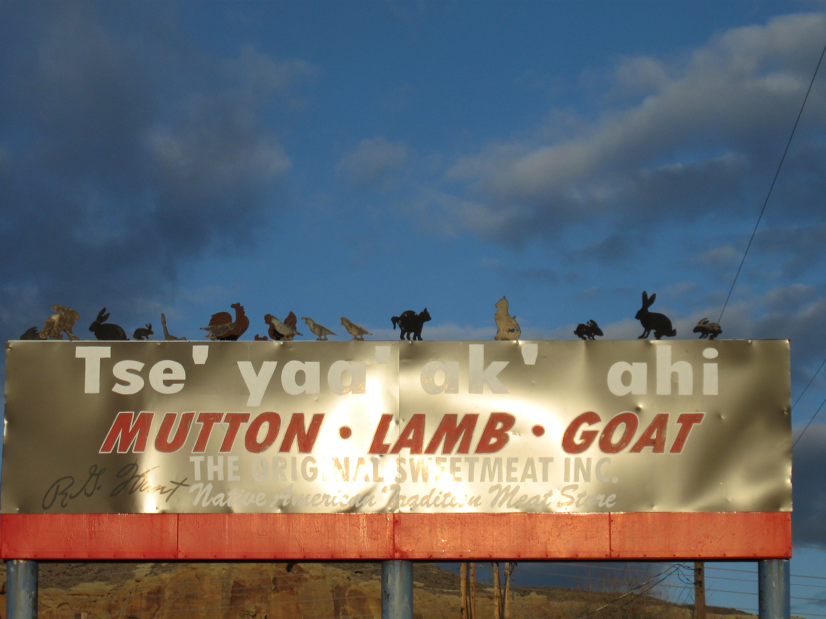 Advertising-billboard for Original Sweetmeat Inc. near Waterflow, with name of location in Navajo